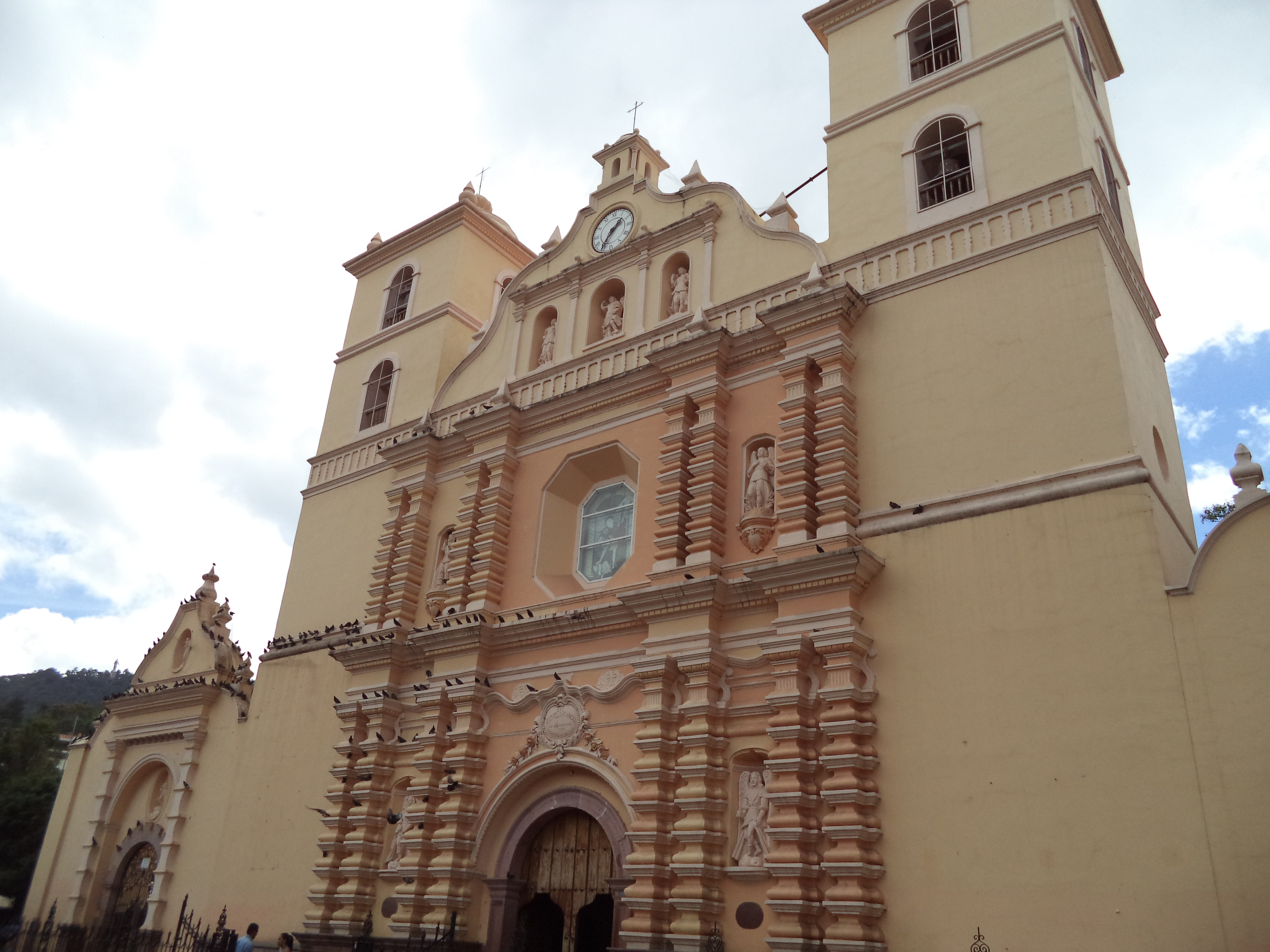 CATEDRAL DE TEGUCIGALPA